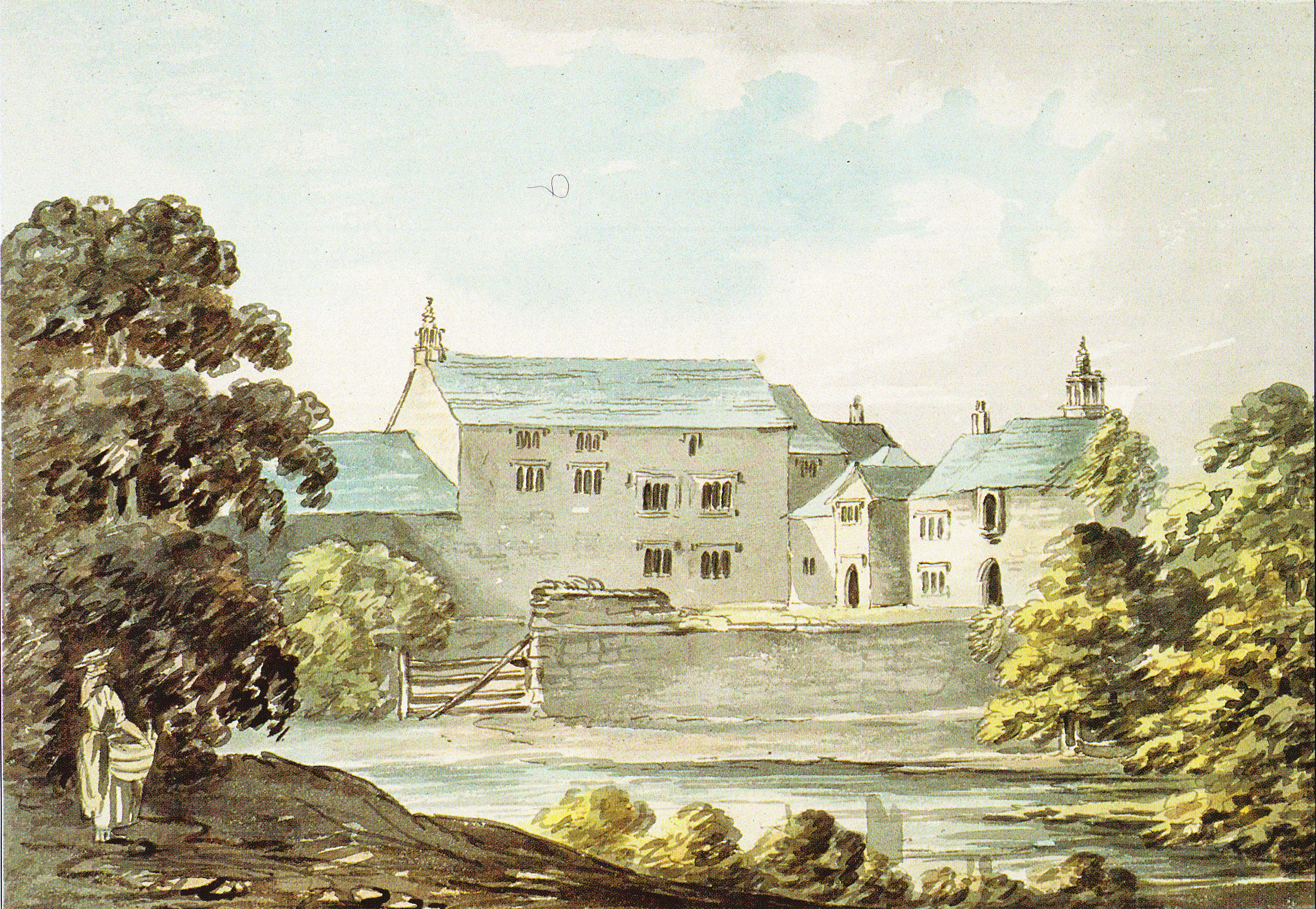 Old Newnham, Plympton St Mary, Devon, 1797 watercolour by Rev John Swete